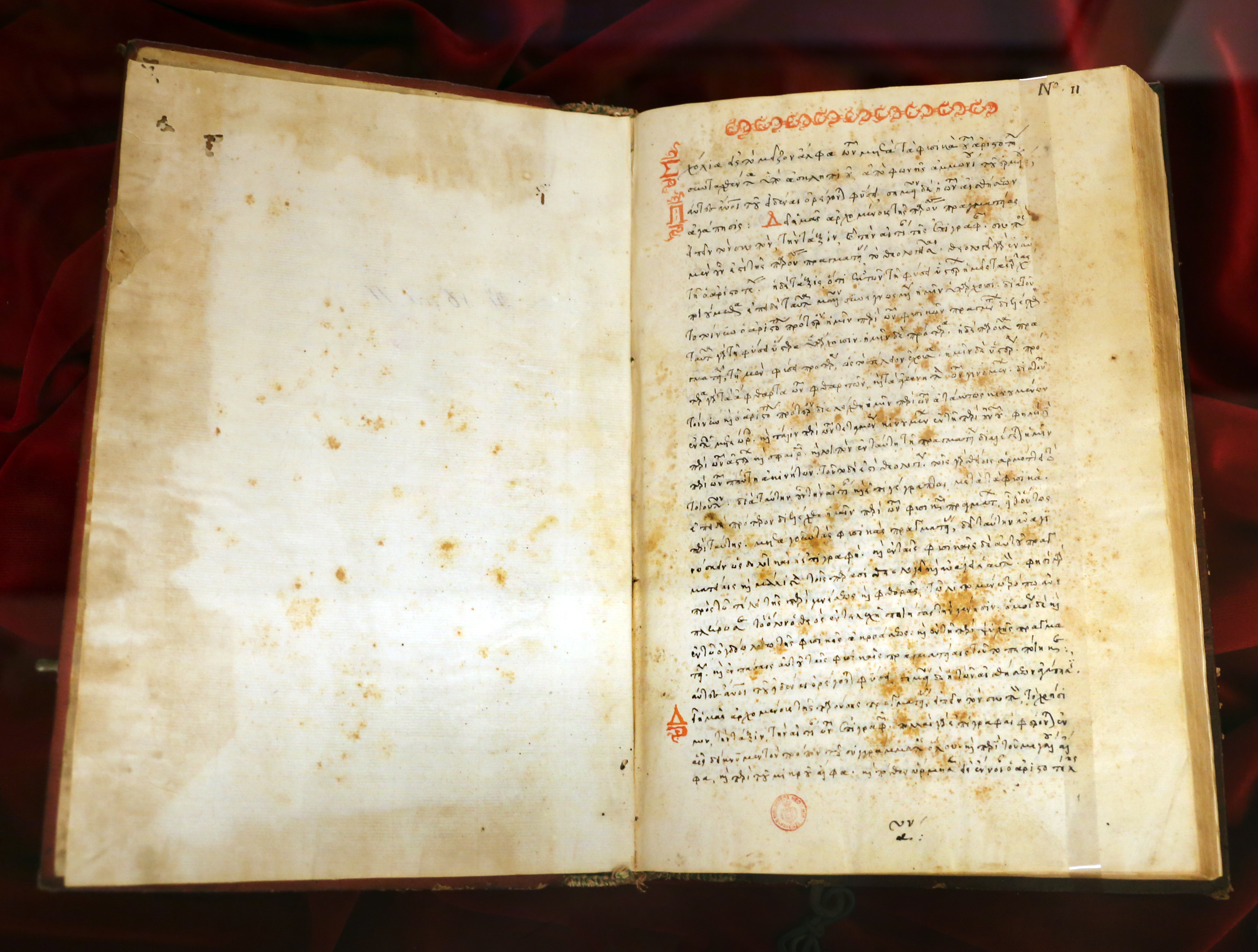 Biblioteca Medicea Laurenziana manuscripts